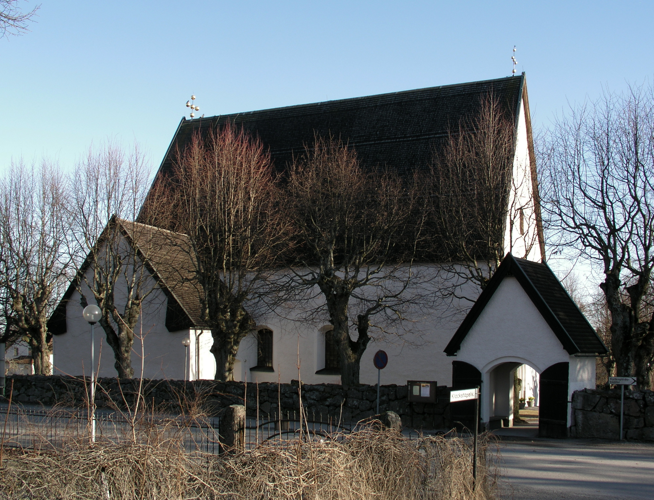 Täby kyrka, Diocese of Stockholm. The photo was taken the 15th of April 2006 by Håkan Svensson (Xauxa).